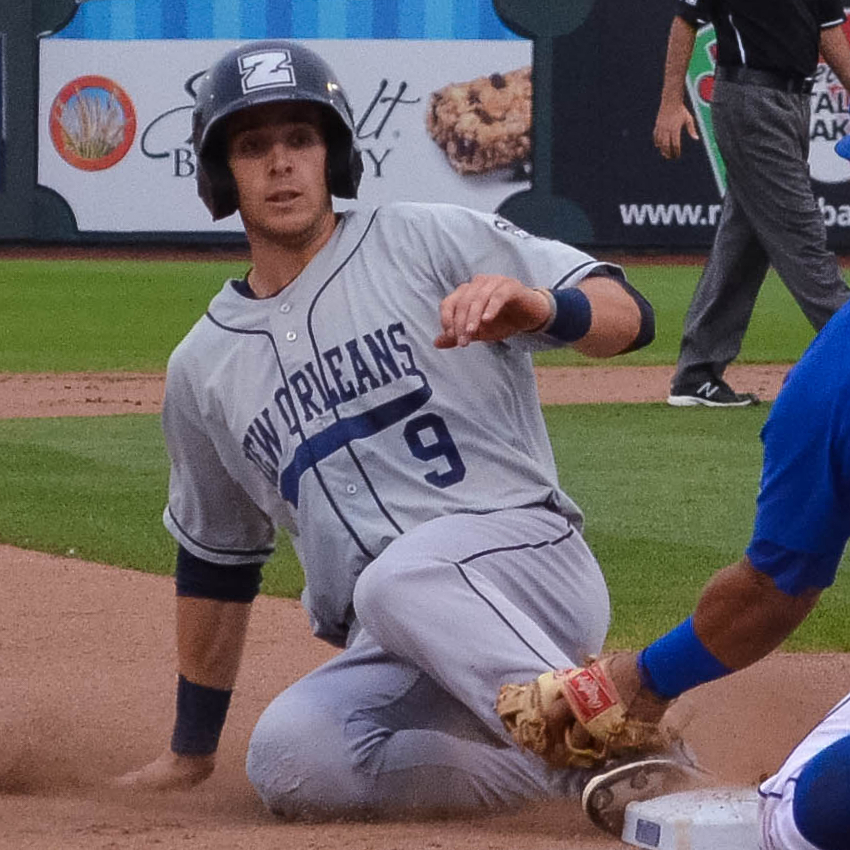 Austin Nola